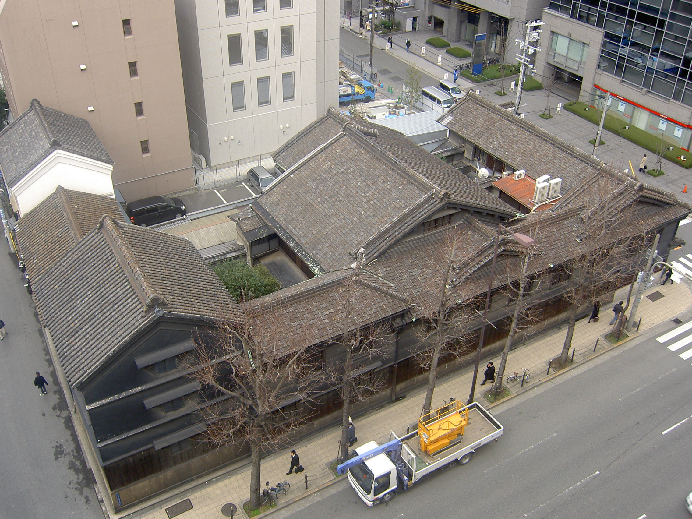 A company building of Konishi Gisuke Shoten. Doshomachi, Chuo-ku, Osaka, Osaka prefecture, Japan.